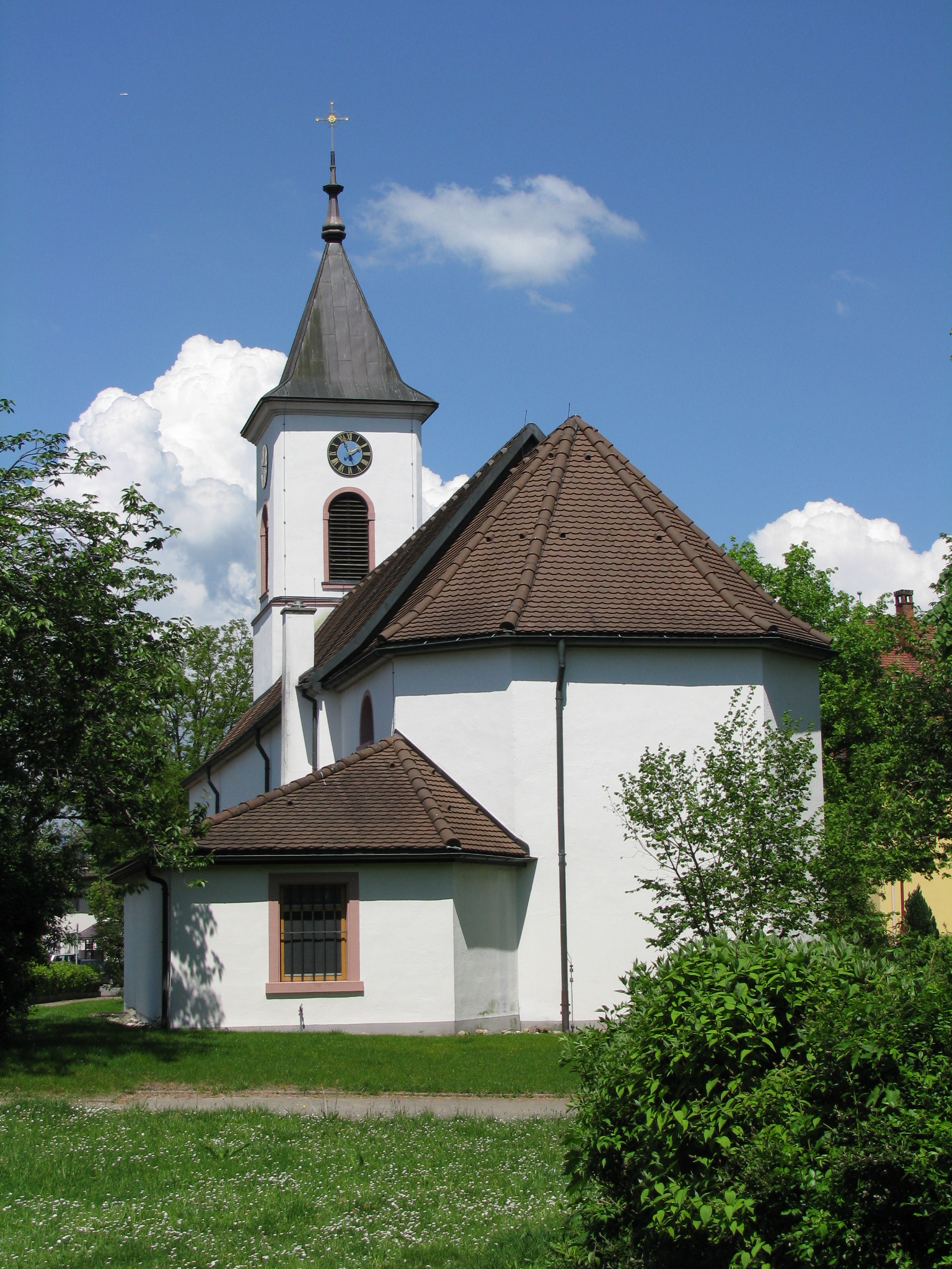 Roman catholic church St. Maria in Wallbach (Bad Säckingen)